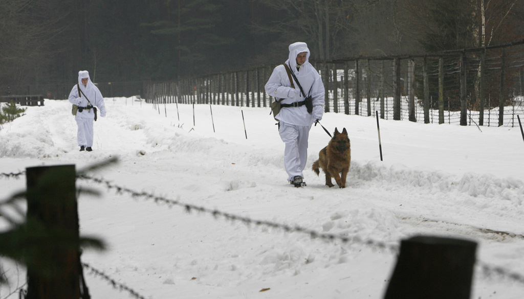 “Work of "Kamenyuki" frontier post on Belarus border with Poland”. Soldiers with a service dog patrol along the wire fence at the 3rd "Kamenyuki" frontier post in the Bialowieza Forest on the Belarus border with Poland.